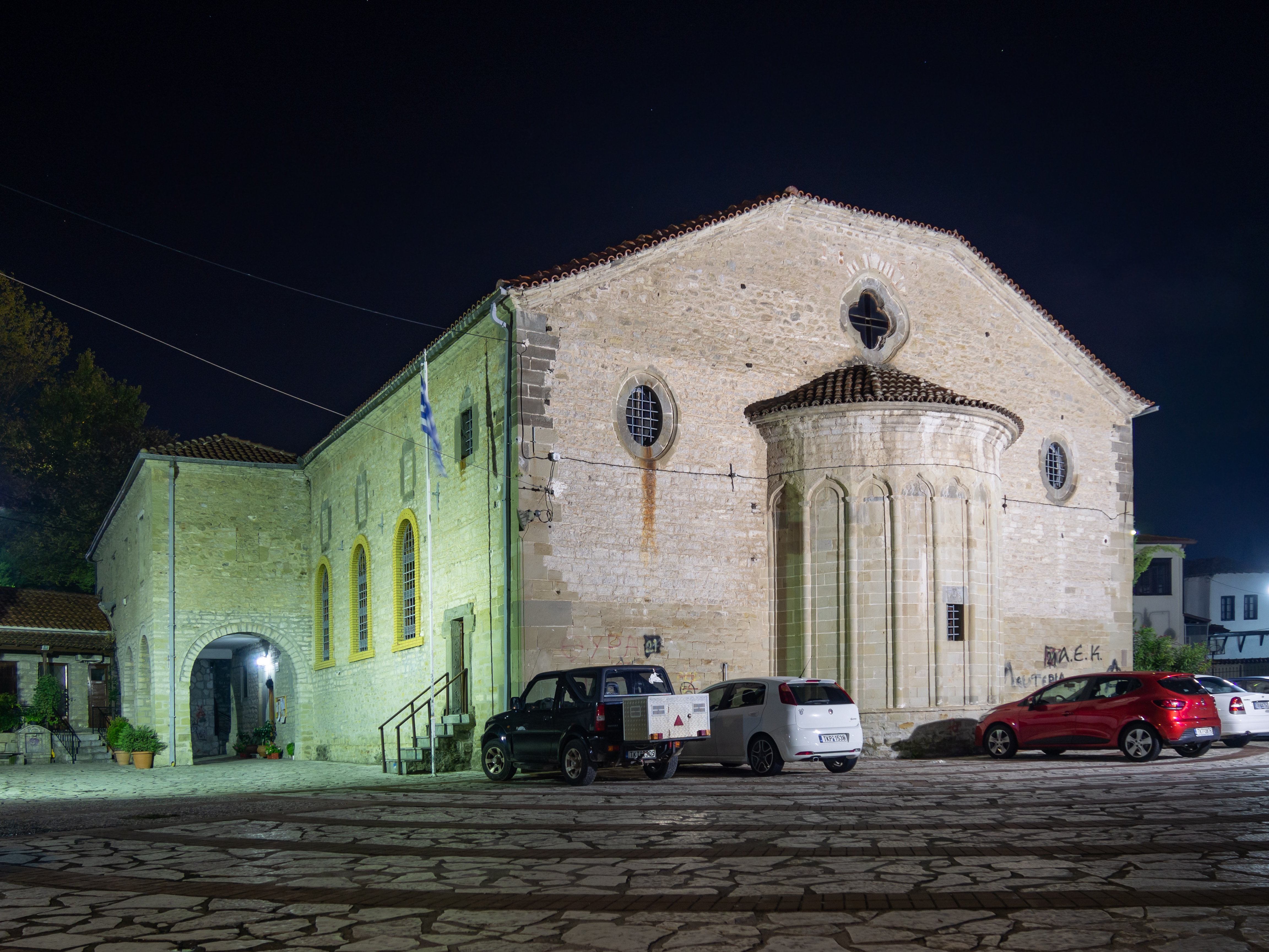 The church of Panagia Faneromeni, in Varousi Trikala, at night. It was build in 1853.